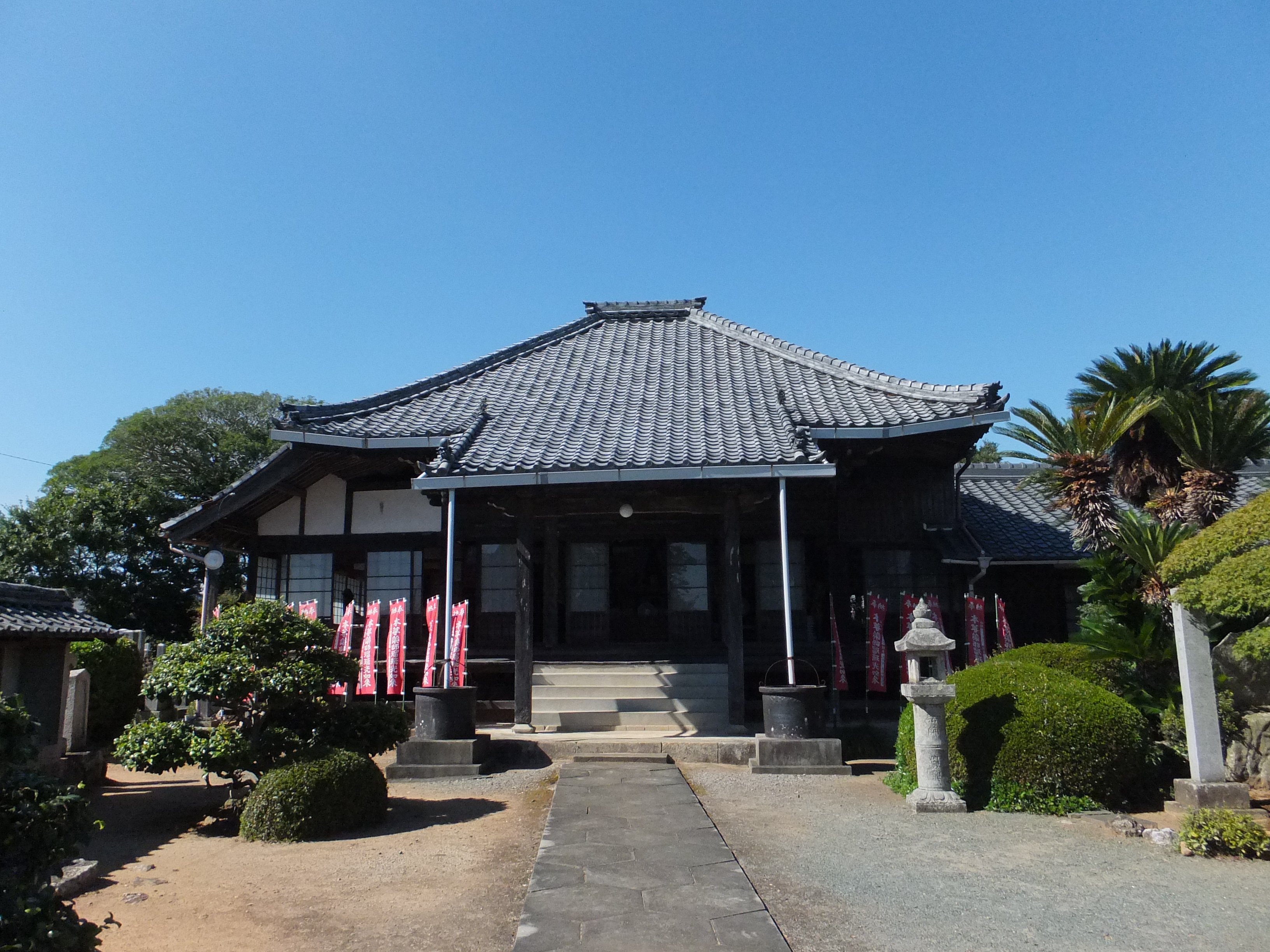 Kokubunji (国分寺), located at 31 Hongo, Yawata-cho, Toyokawa, Aichi, Japan